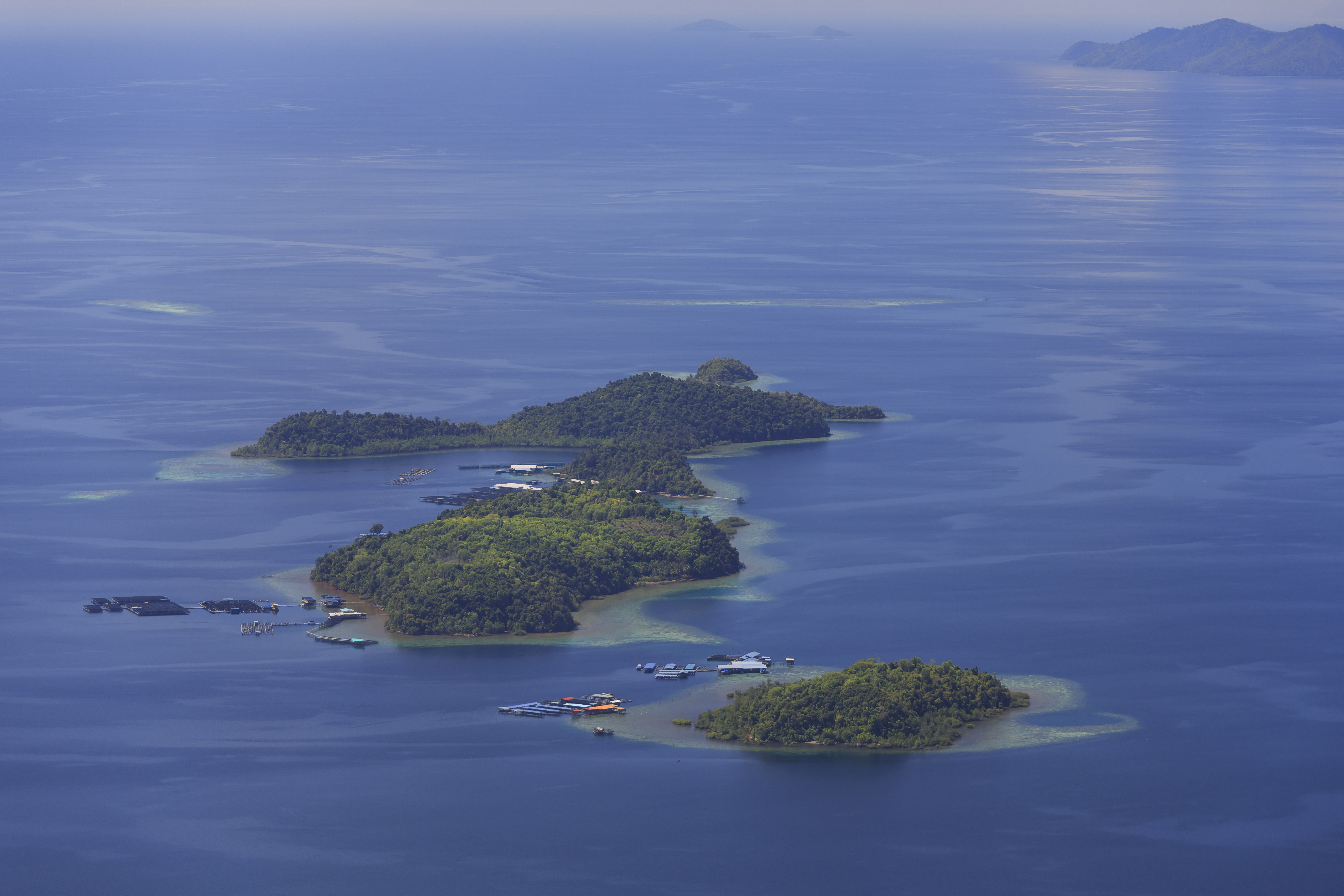 Lahad Datu, Sabah: Panoramic view from "Tower of Heaven" (Menara Kayangan) on Mount Silam over Darvel Bay with the islands Pulay Saga, Pulau Saddle and Pulau Laila.